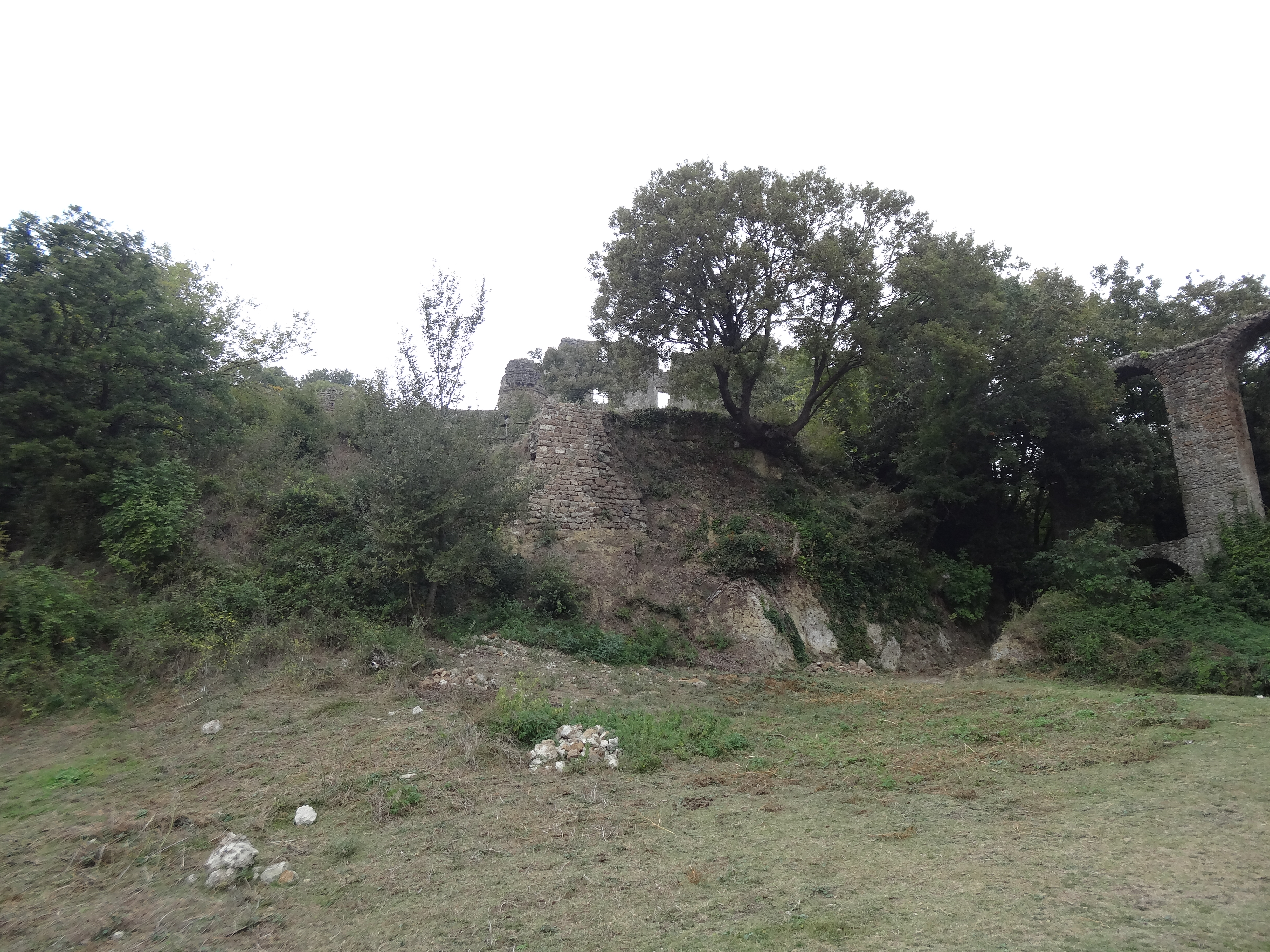 Rovine Monterano